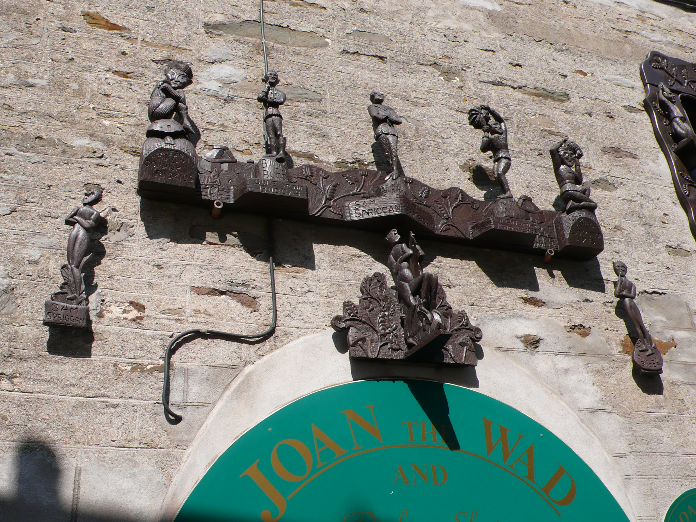 Entryway into Joan the Wad and Piskey Shop, Polperro, Looe, Cornwall, UK